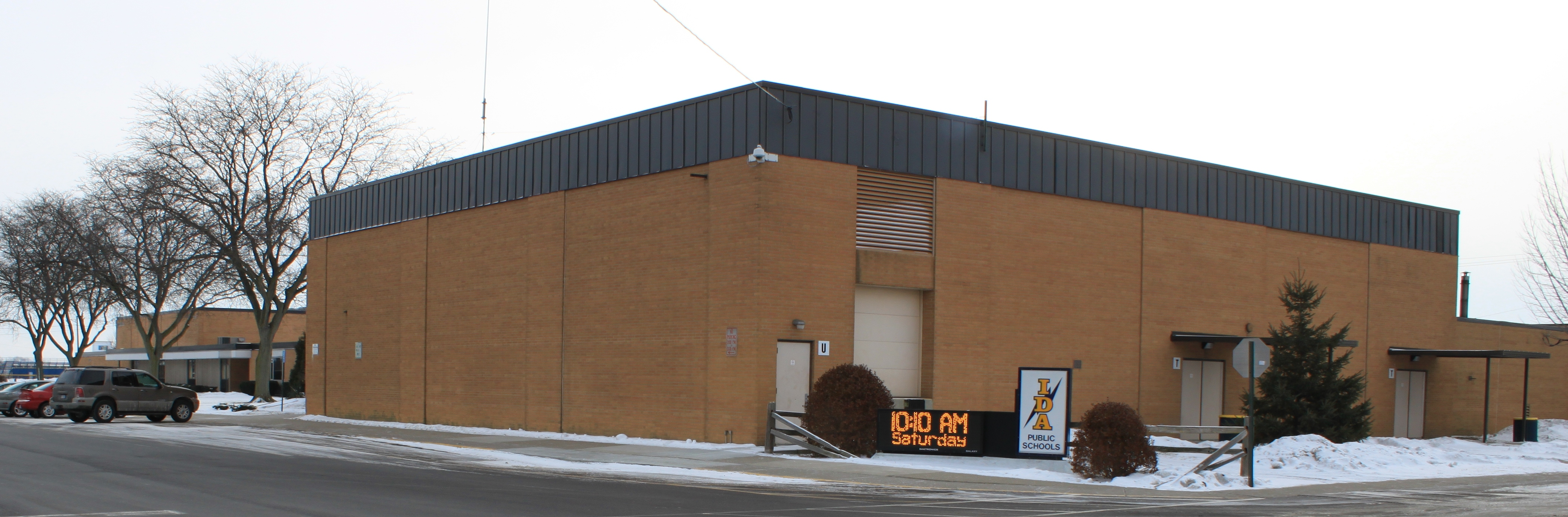 Ida High School, 3145 Prairie Street, Ida, Michigan